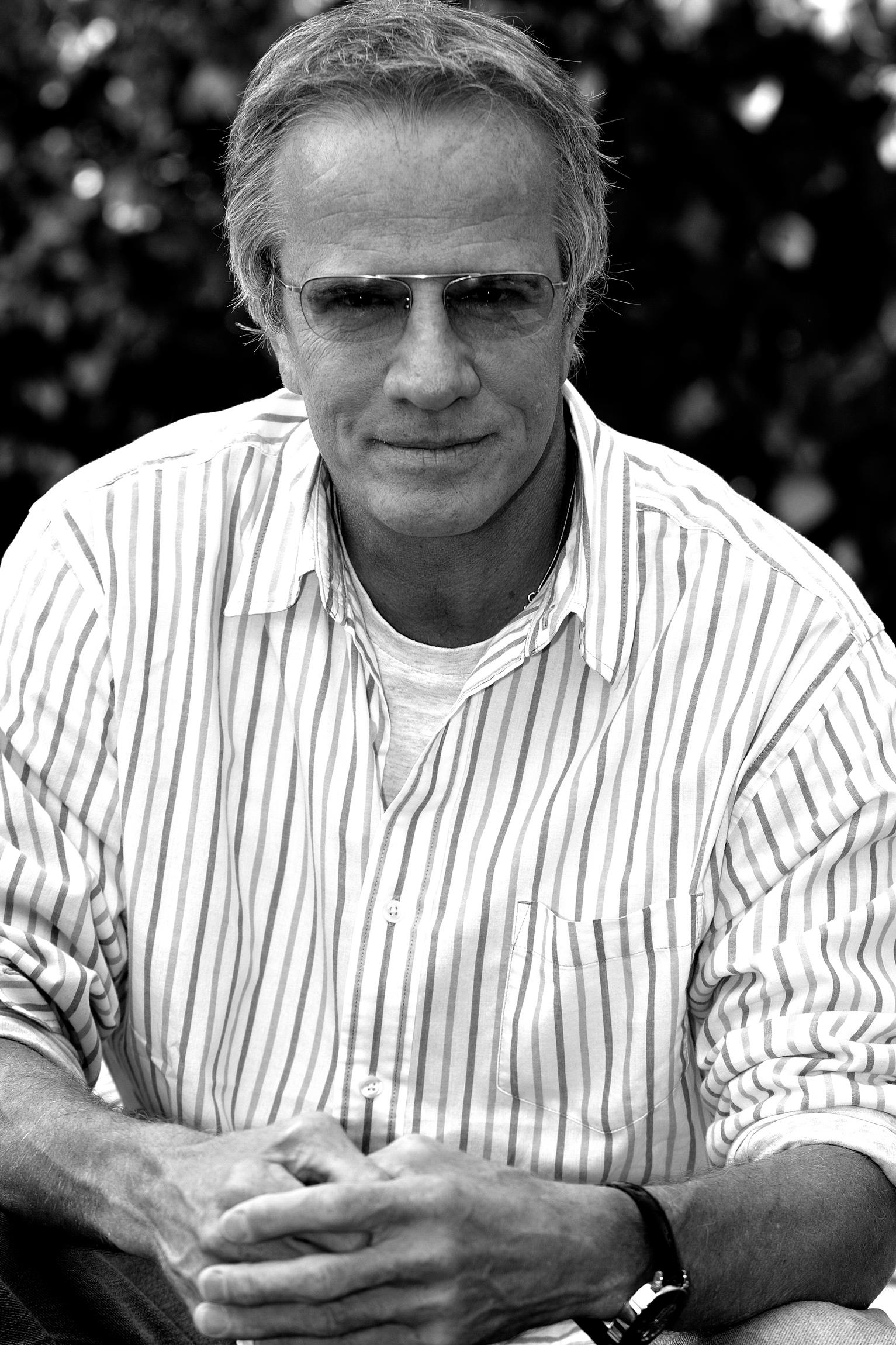 Actor Christopher Lambert - 66th Venice International Film Festival.